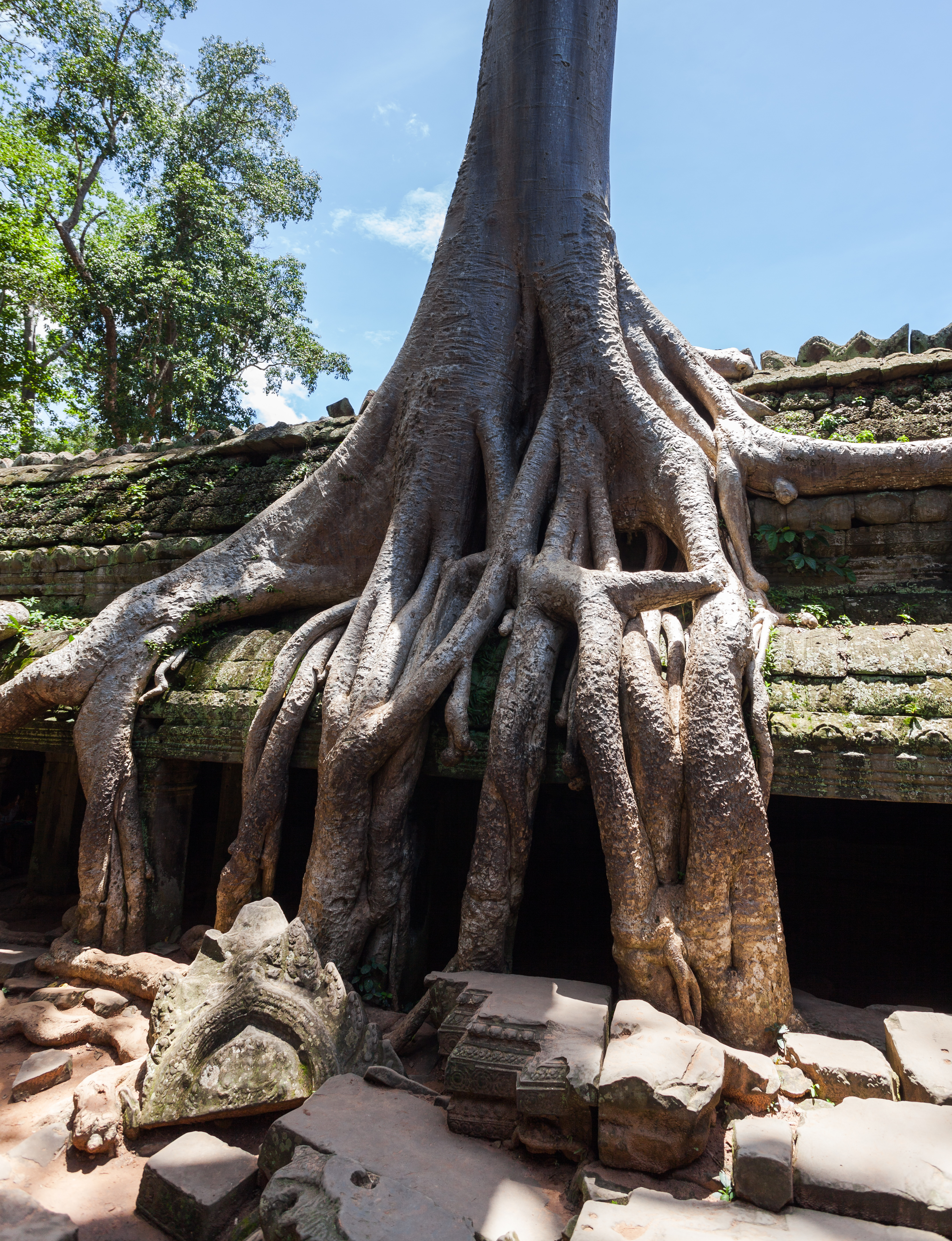 Ta Phrom, Angkor, Cambodia